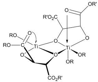 Chemical structure of Sharpless Epoxidation catalyst